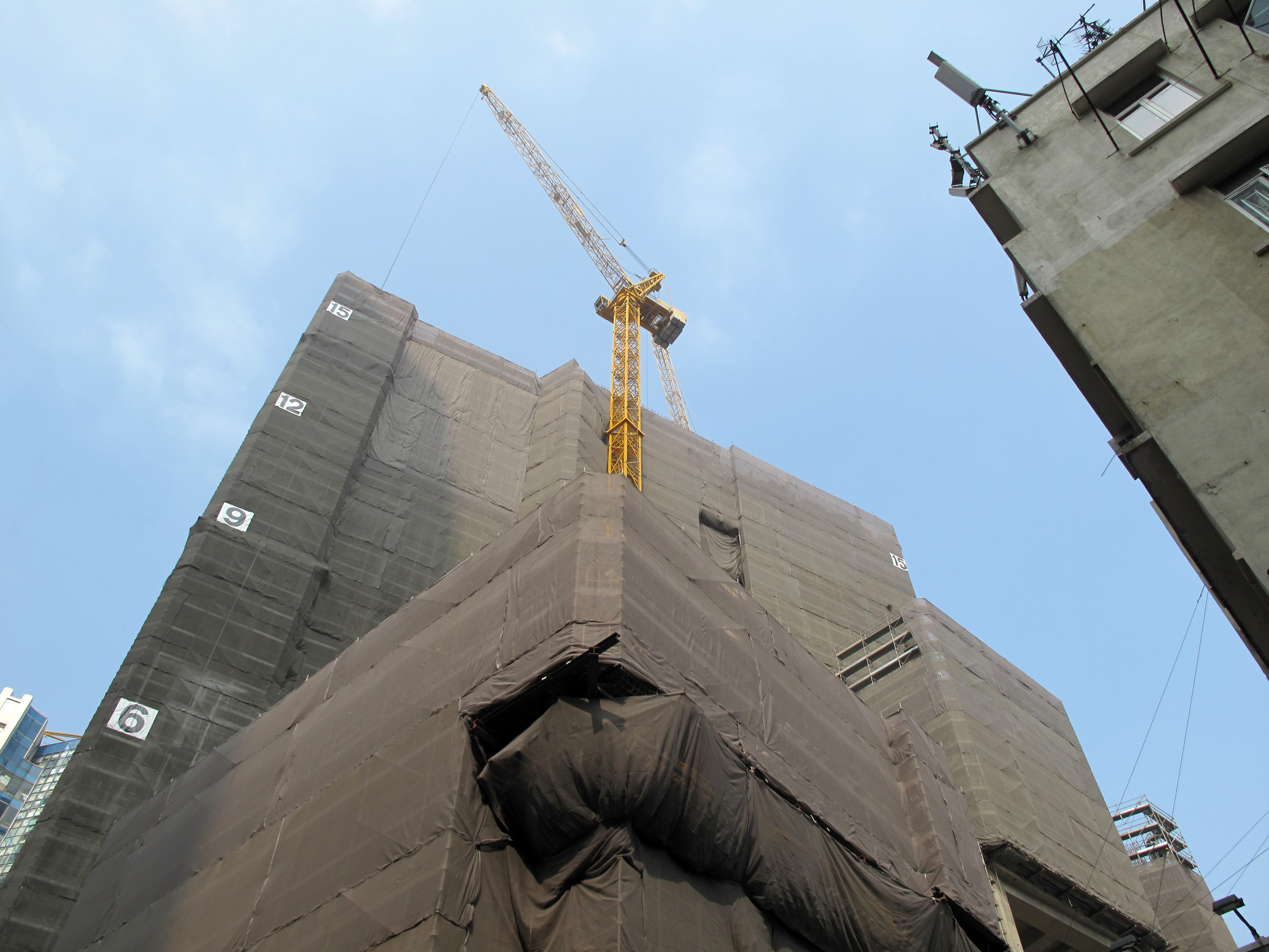 Photo of Hysan Place